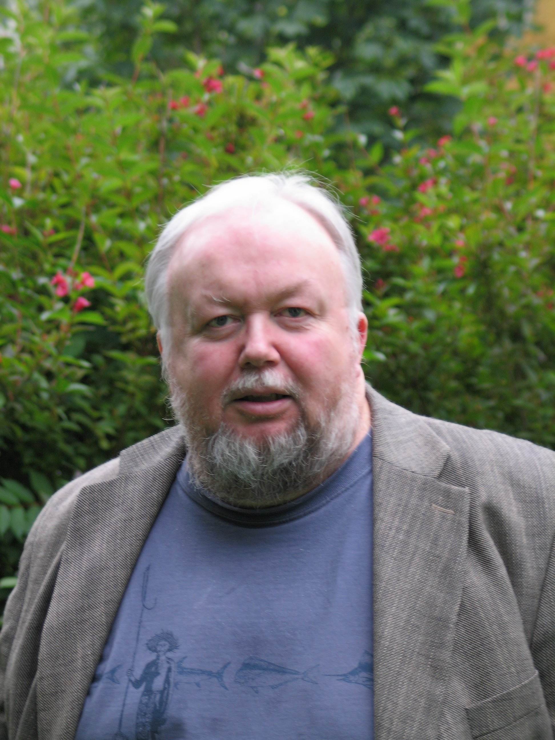 Gisle Hannemyr (born July 3, 1953) is a researcher and lecturer at the Institute for Informatics, University of Oslo